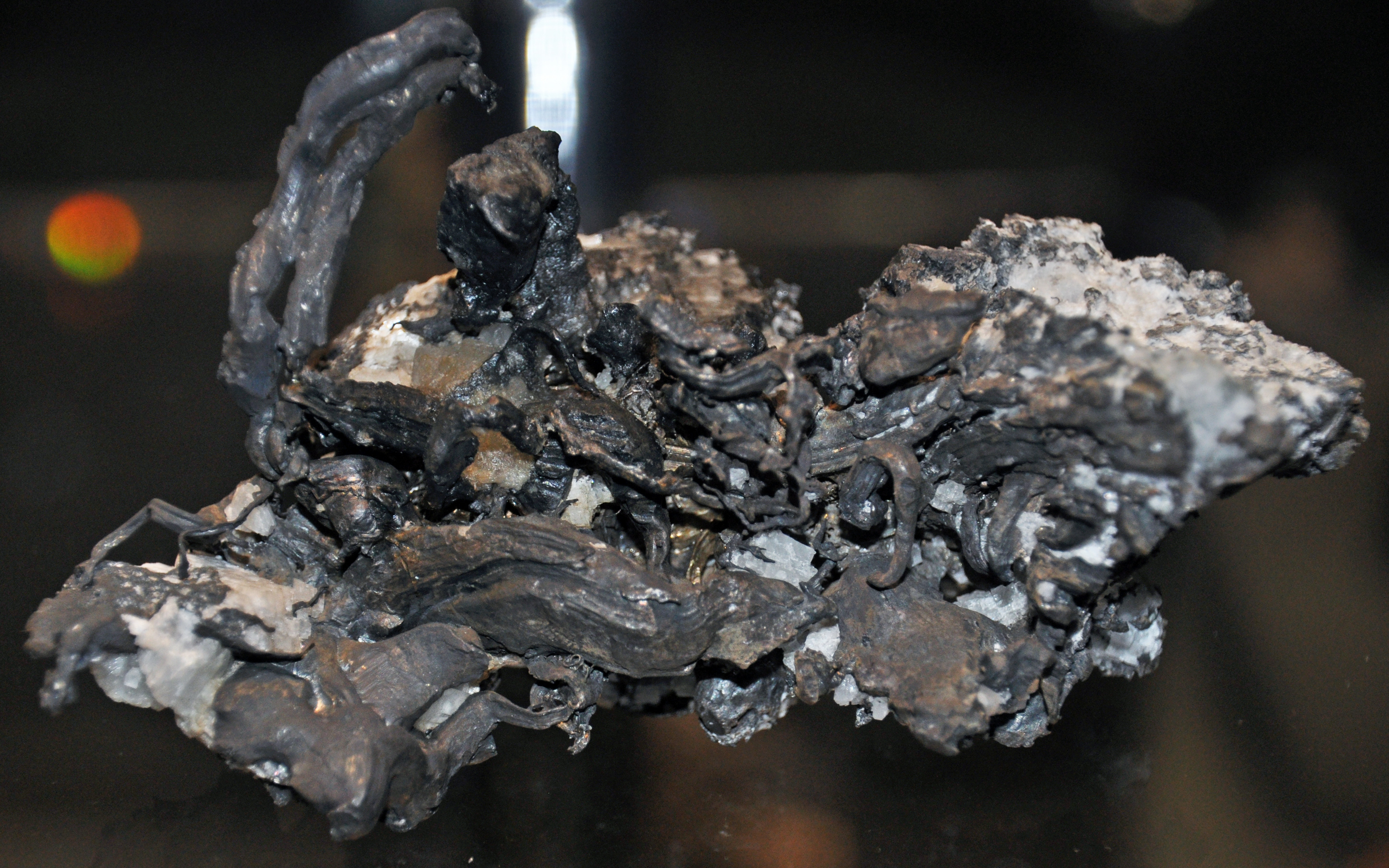 Tarnished silver from Norway. (public display, Carnegie Mus. of Natural History, Pittsburgh, Pennsylvania, USA) A mineral is a naturally-occurring, solid, inorganic, crystalline substrance having a fairly definite chemical composition and having fairly definite physical properties. At its simplest, a mineral is a naturally-occurring solid chemical. Currently, there are over 4900 named and described minerals - about 200 of them are common and about 20 of them are very common. Mineral classification is based on anion chemistry. Major categories of minerals are: elements, sulfides, oxides, halides, carbonates, sulfates, phosphates, and silicates. Elements are fundamental substances of matter - matter that is composed of the same types of atoms. At present, 118 elements are known (four of them are still unnamed). Of these, 98 occur naturally on Earth (hydrogen to californium). Most of these occur in rocks & minerals, although some occur in very small, trace amounts. Only some elements occur in their native elemental state as minerals. To find a native element in nature, it must be relatively non-reactive and there must be some concentration process. Metallic, semimetallic (metalloid), and nonmetallic elements are known in their native state as minerals. Silver is part of the gold-group of metallic elements. Silver is a precious metal, but is far less valuable than gold or platinum. Silver usually occurs as a silver sulfide mineral, but it also occurs in nature in its native state, often in the form of twisted wires. Silver is moderately soft and has a silvery-white color on fresh surfaces that tarnishes to darker colors. Elemental silver in nature is often found alloyed with other metals. Naturally alloyed gold-silver is called electrum.